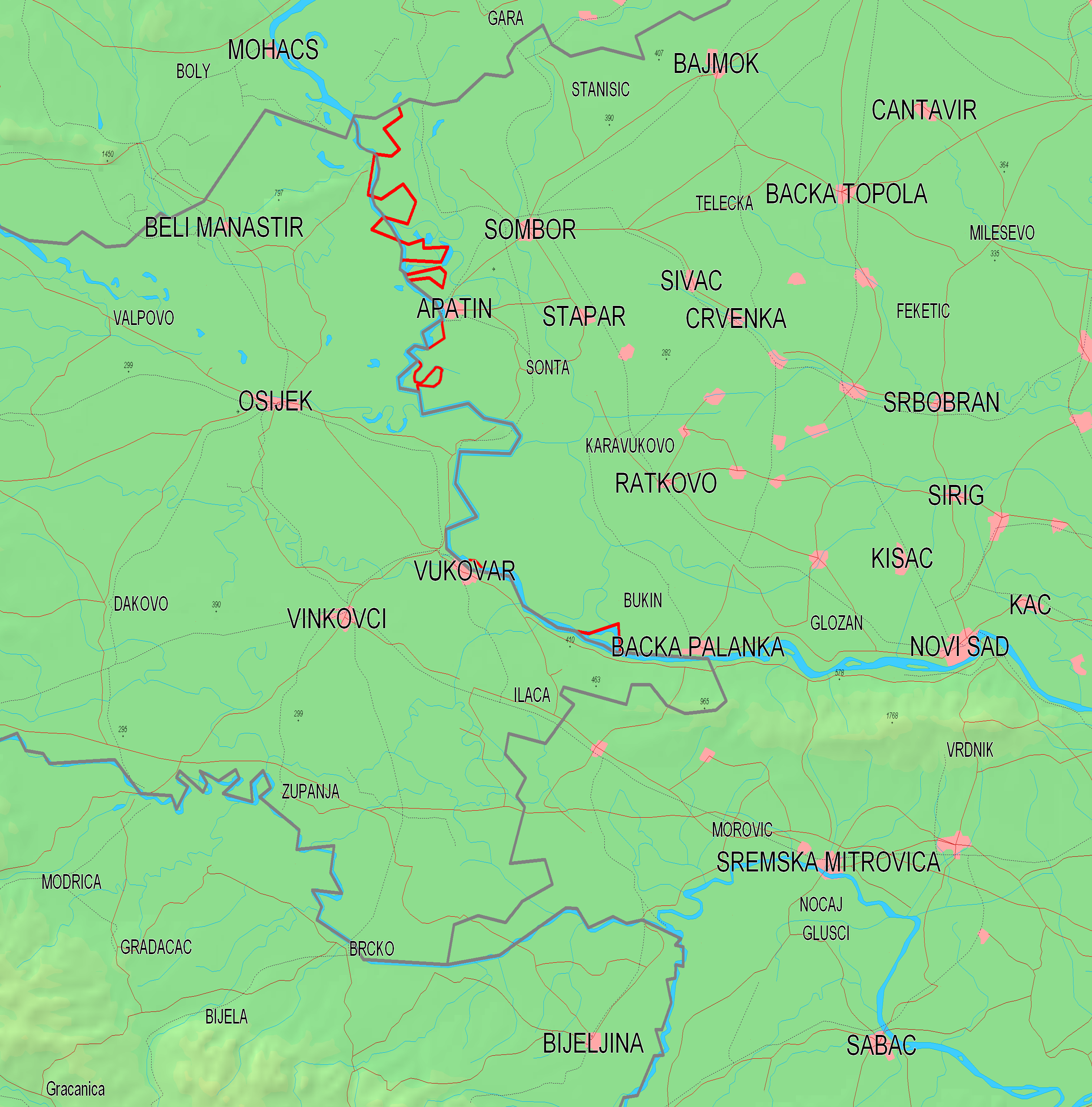 Border between Croatia and Serbia along the Danube river